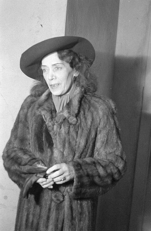 Original image description from the Deutsche Fotothek Mary Wigman, Prof. Benedik